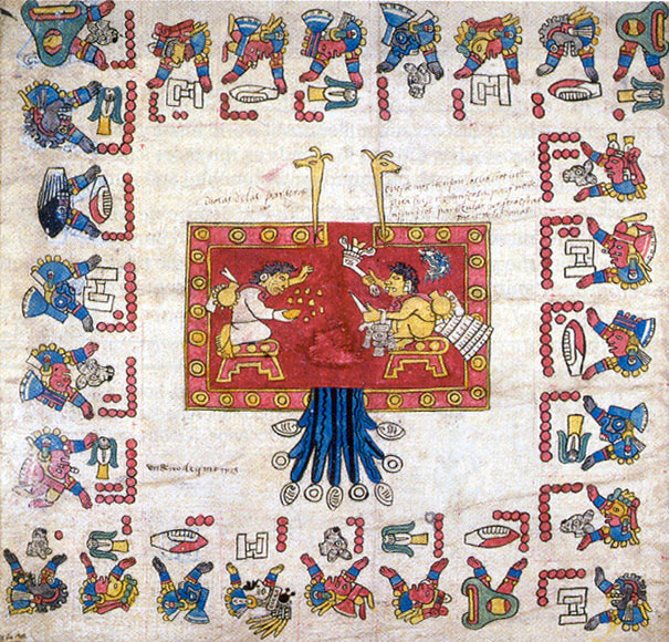 Codex Borbonicus.